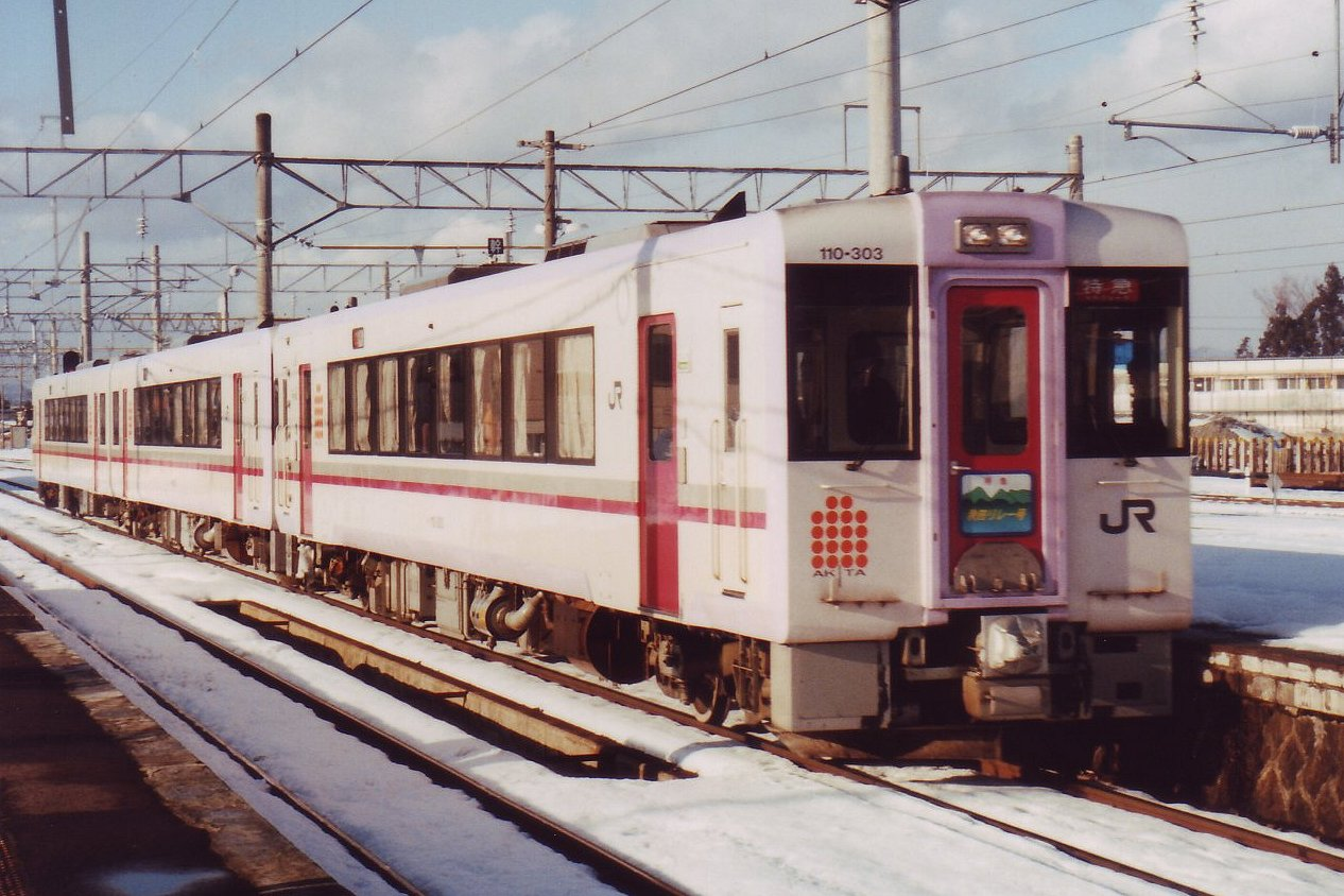 JR East KiHa 110-300 series 3-car DMU formation at Akita Station on an "Akita Relay" limited express service from Kitakami